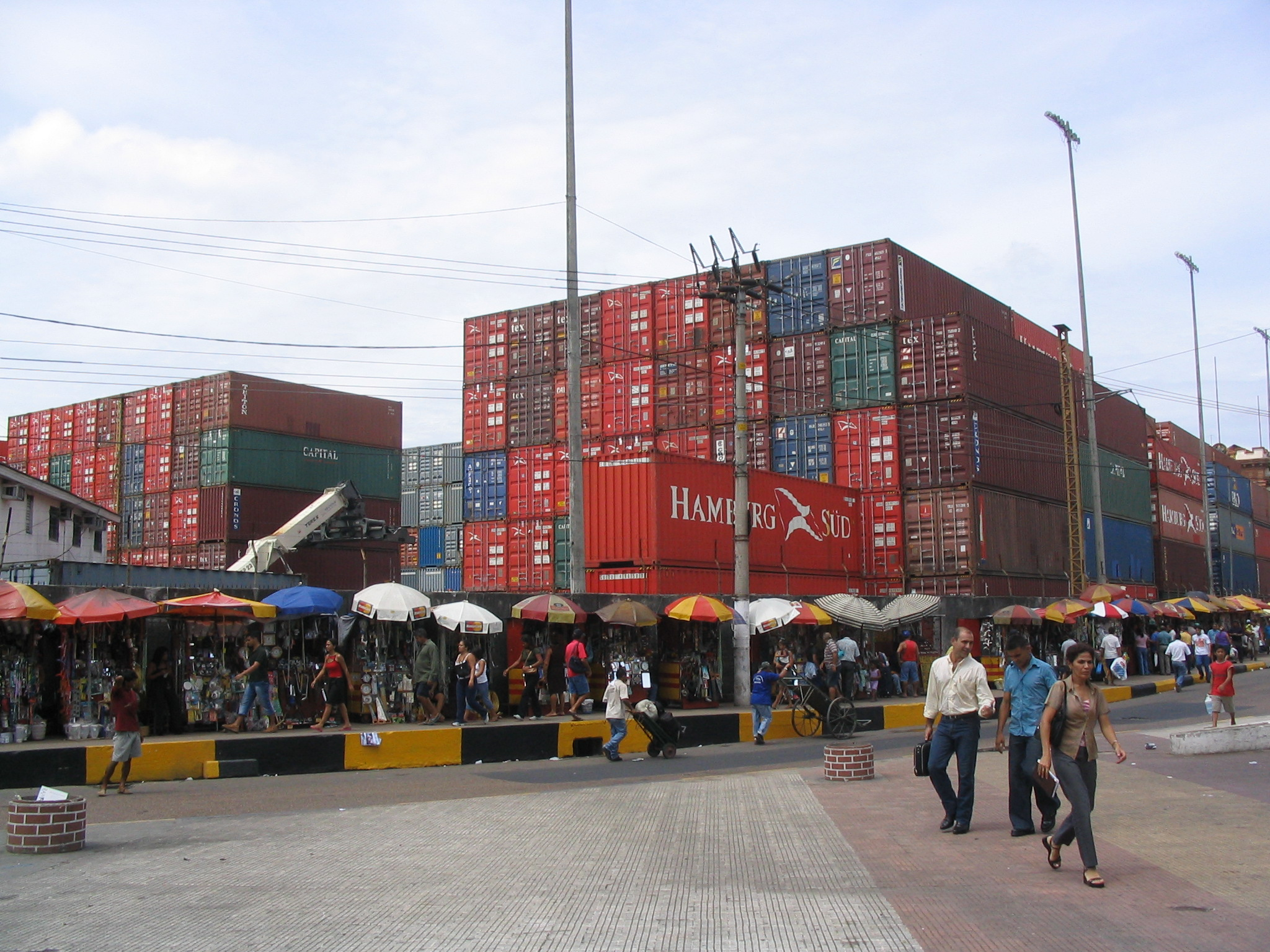 Stacks of containers in the harbour of Manaus, Brazil. The harbour is downtown Manaus.